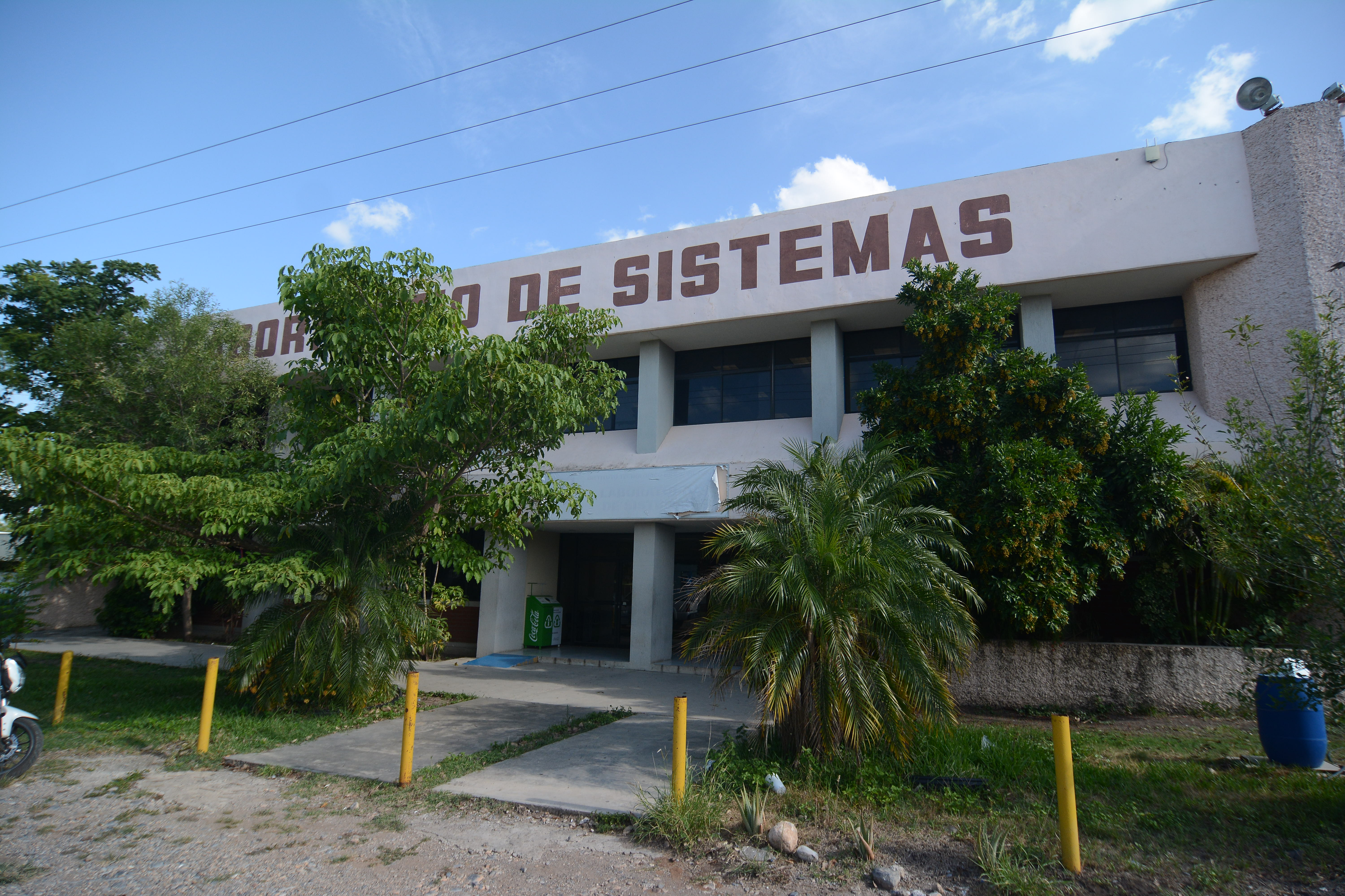 Computation Building in the Instituto Tecnológico de Ciudad Victoria Tamaulipas México